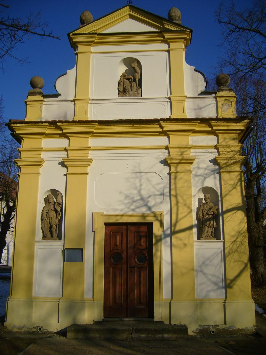 The facade of the Chapel of St. Hubert in Mstisov